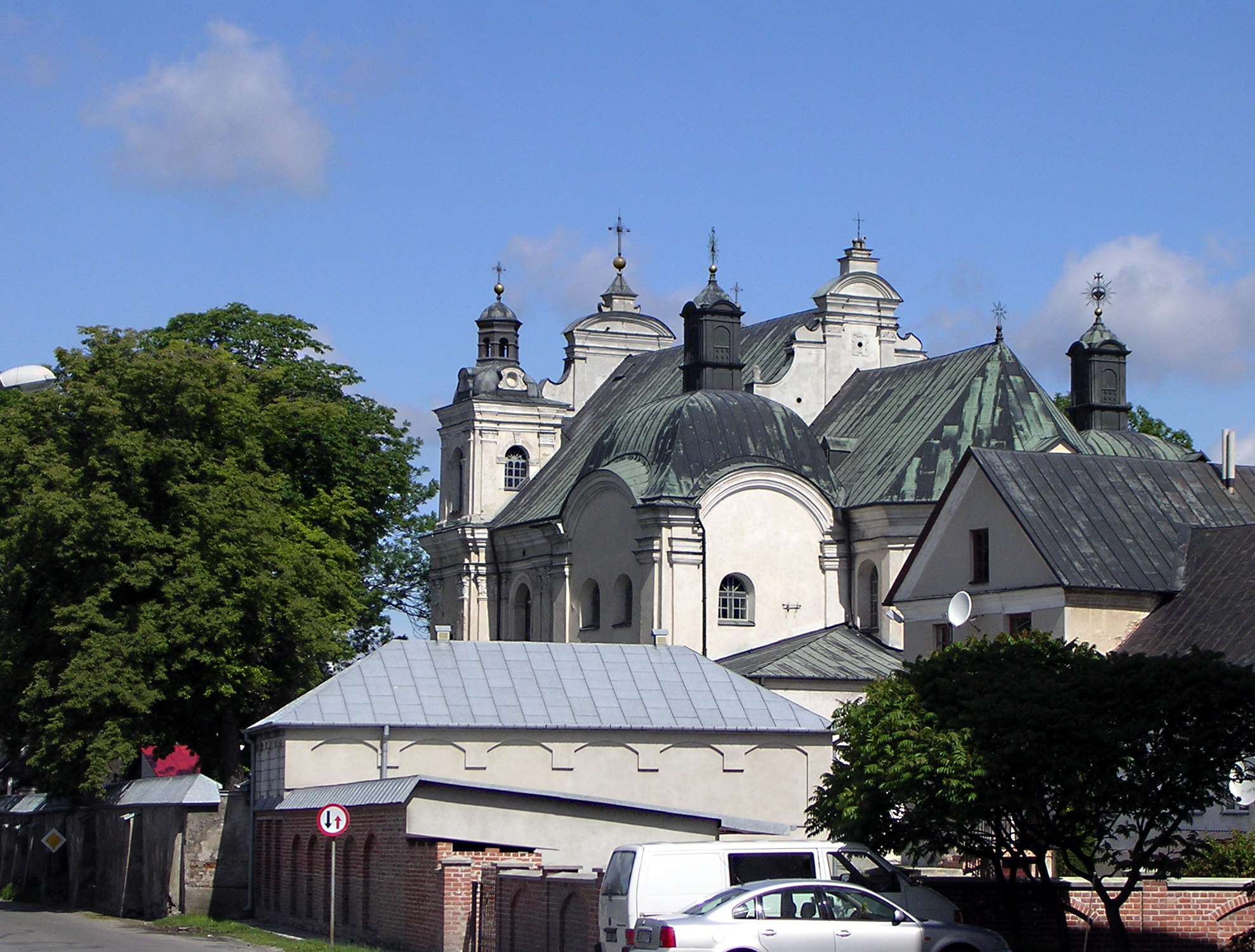 Parish church i Opole Lubelskie (Poland, Lublin voivodship), former church of Piarists, constructed after 1663, before 1674.